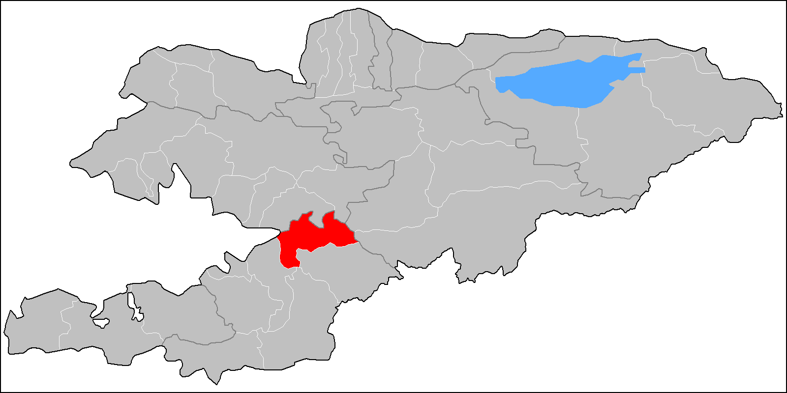 The location of the raion (district) of Özgön in Kyrgyzstan. Based on Image:Kyrgyzstan raions.png